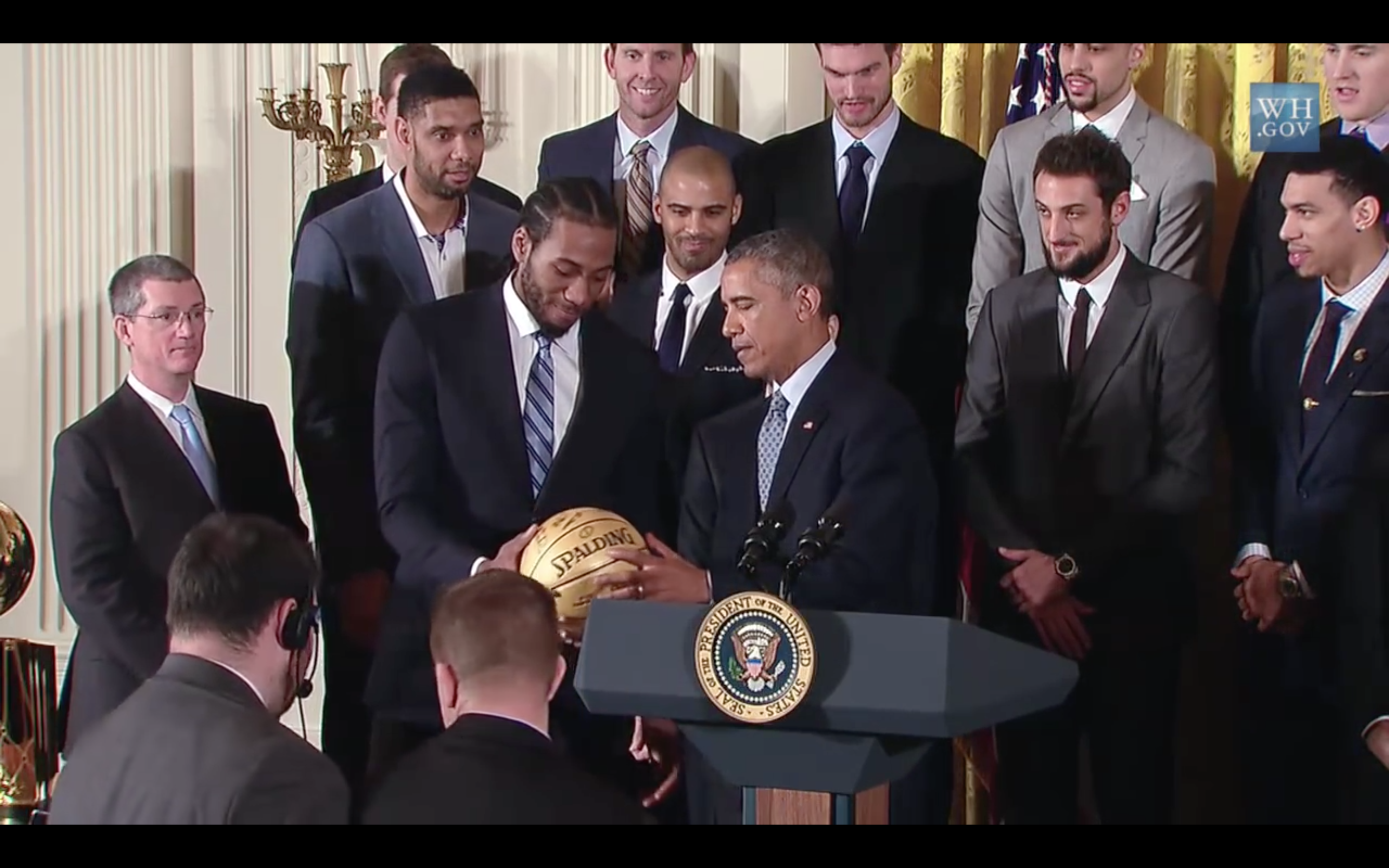 Kawhi Leonard of the San Antonio Spurs presents an autographed basketball to President Barack Obama at the ceremony honoring the 2014 NBA Champions in the East Room of the White House, January 12, 2015